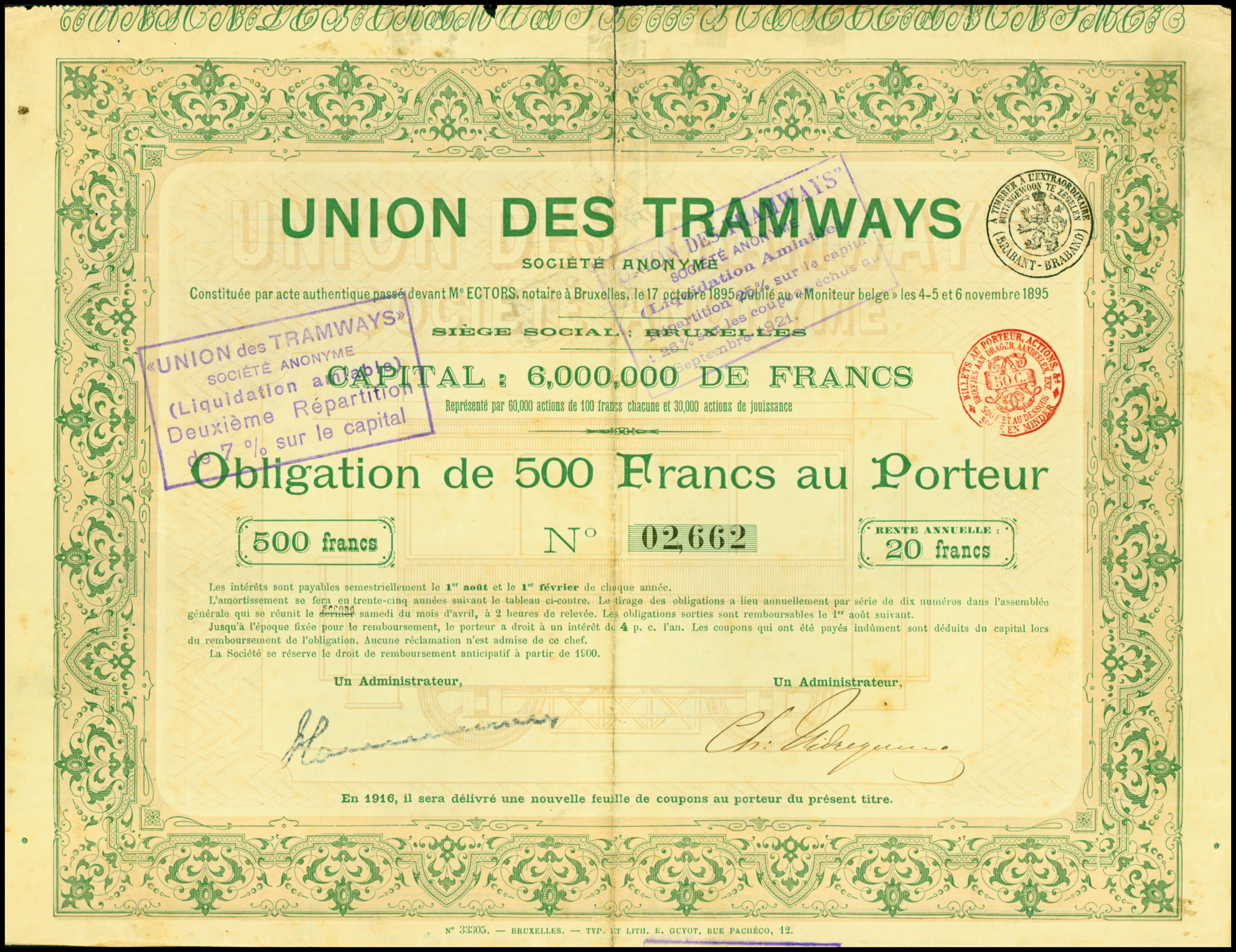 Bond of the Union des Tramways S. A., issued 6. November 1895